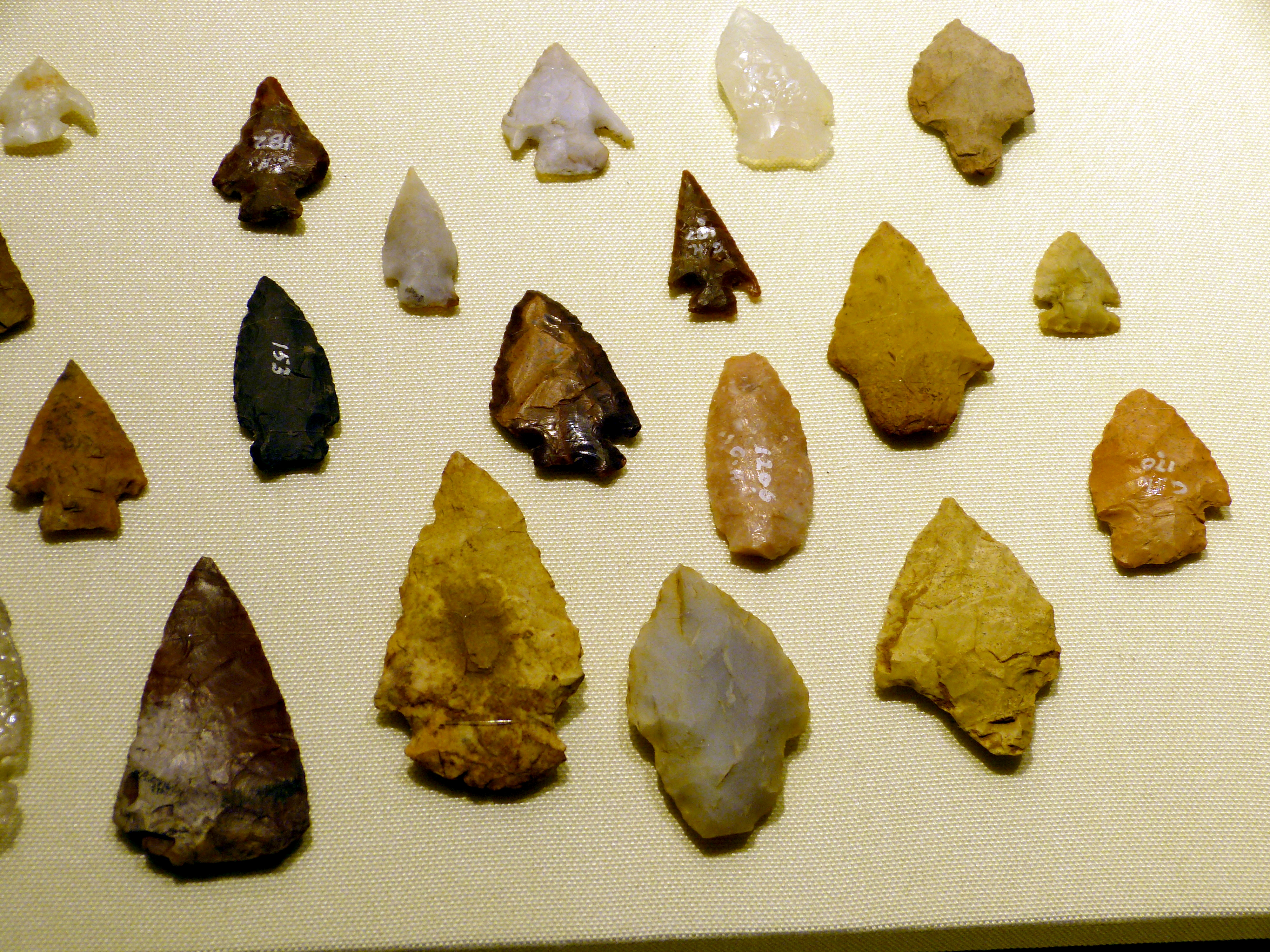 Victoria ( British Columbia ). Royal British Columbia Museum - First People Gallery: Pre-columbian arrow heads from Thompson and Okanogan sites.